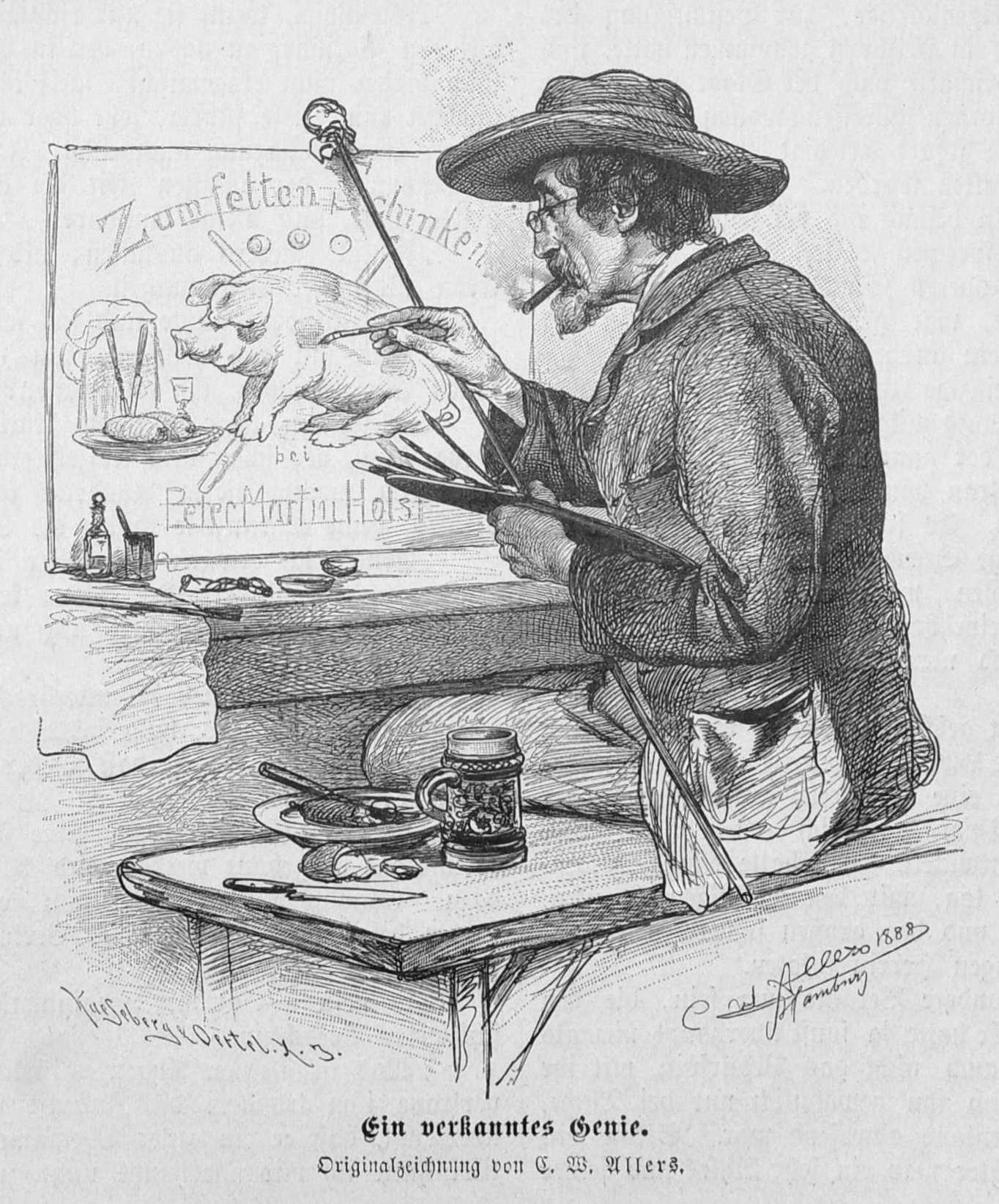 caption: "Ein verkanntes Genie. Originalzeichnung von C. W. Allers."